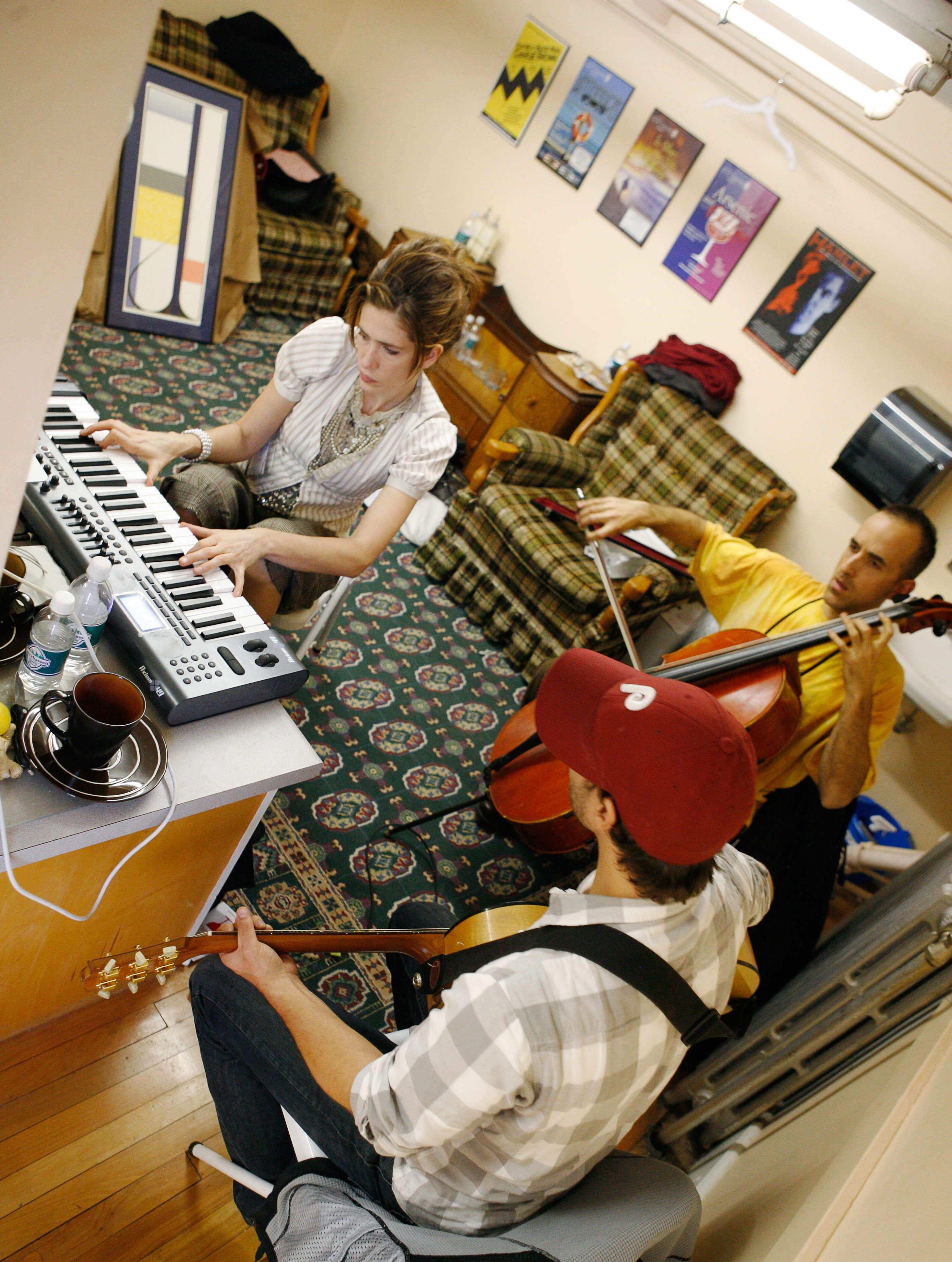 Imogen Heap, Amos Lee, and Rufus Cappadocia (left to right) practice backstage before an impromptu group performance on Saturday evening. photography by kris krüg M-AUDIO Axiom 49